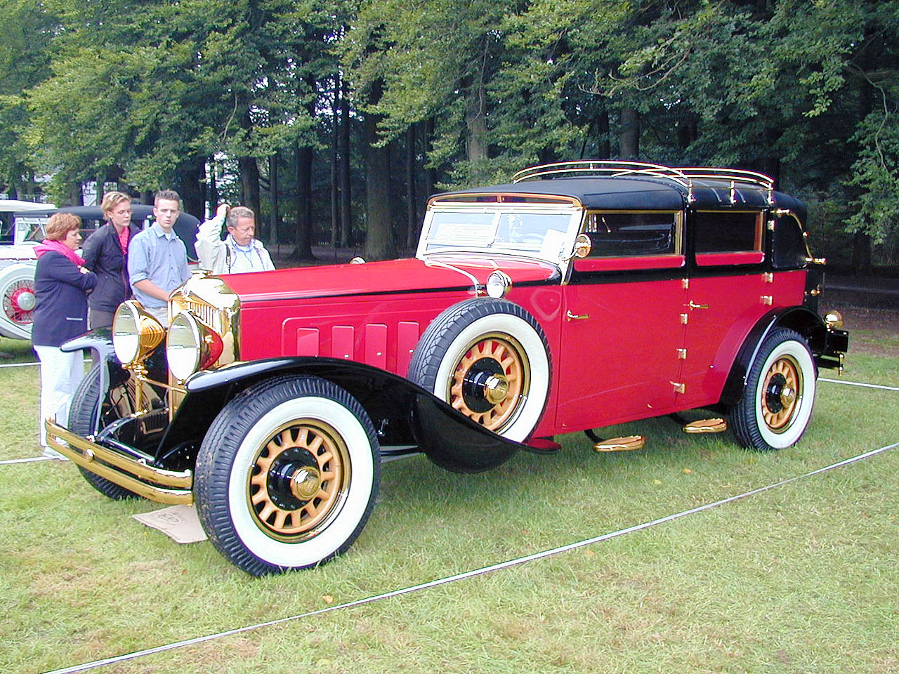 40 HP model powered by a 6616 cc 8-cylinder engine with sleeve-valves, made in Belgium by Minerva Motors SA; front left-side view